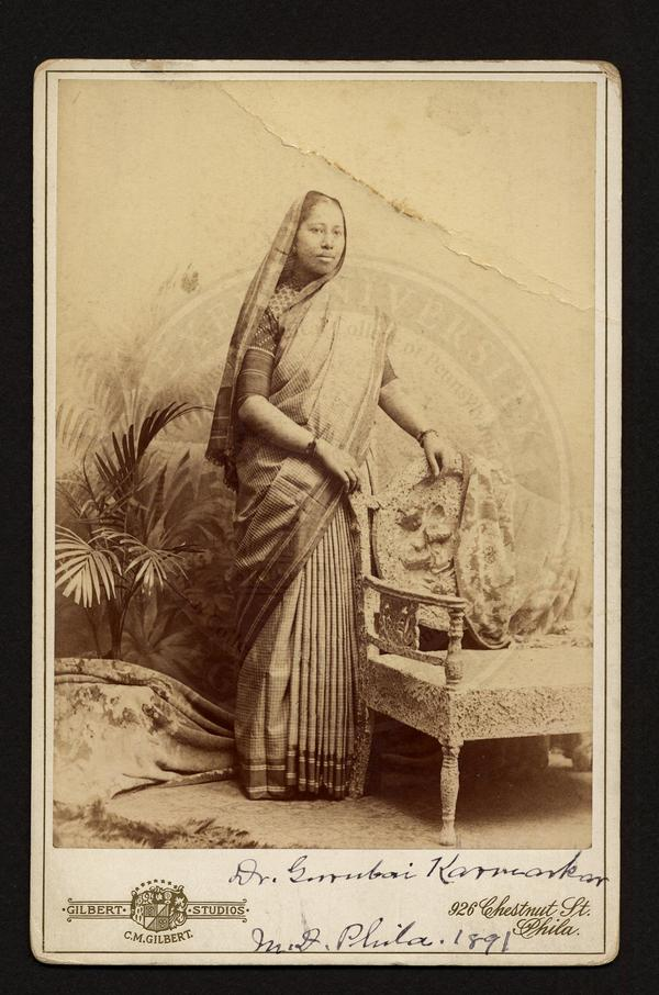 Photograph of Gurubai Karmarkar, an 1892 graduate from Woman's Medical College of Pennsylvania.